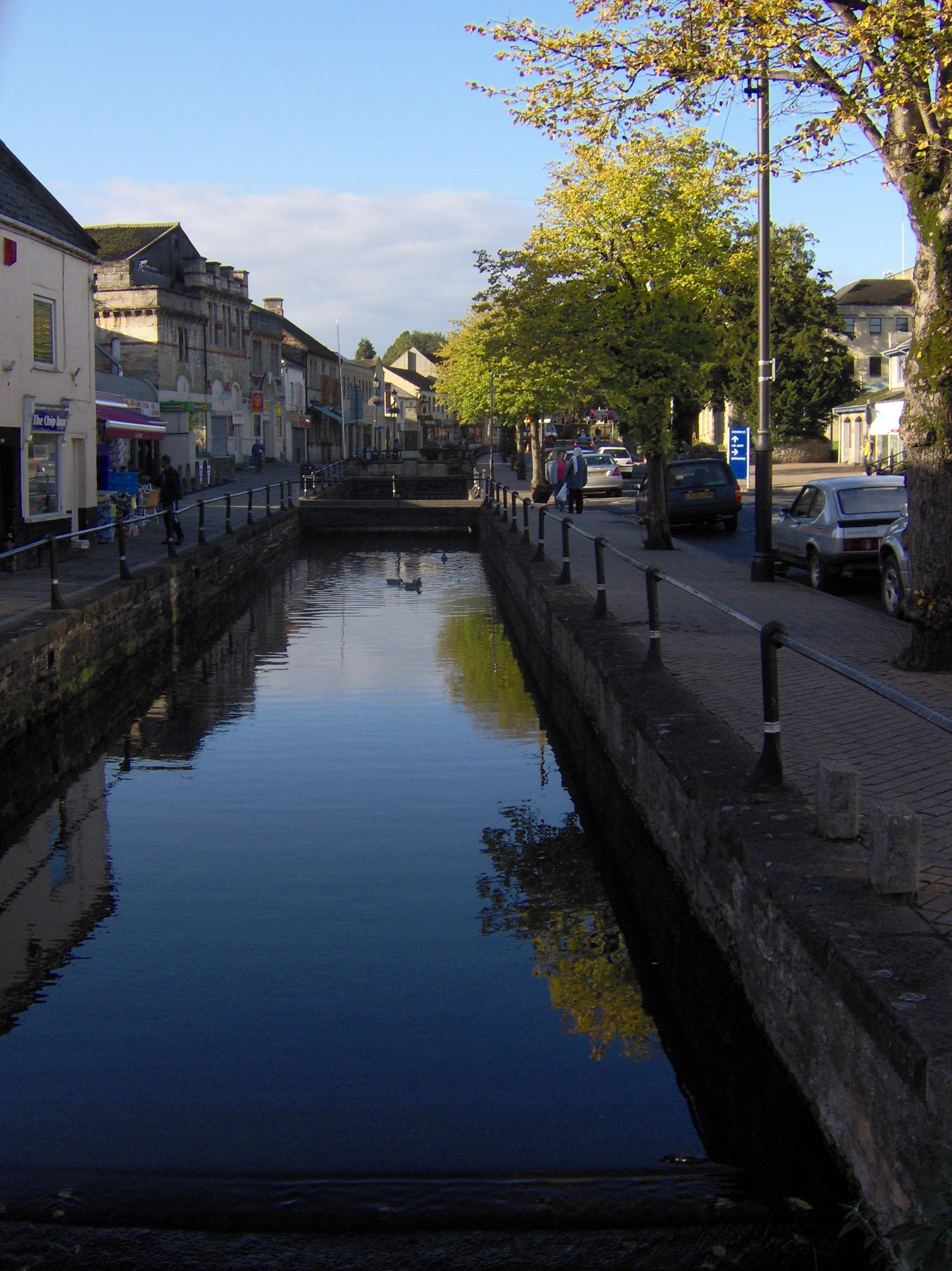 The river Somer at Midsomer Norton. Taken by Rod Ward Oct 2006